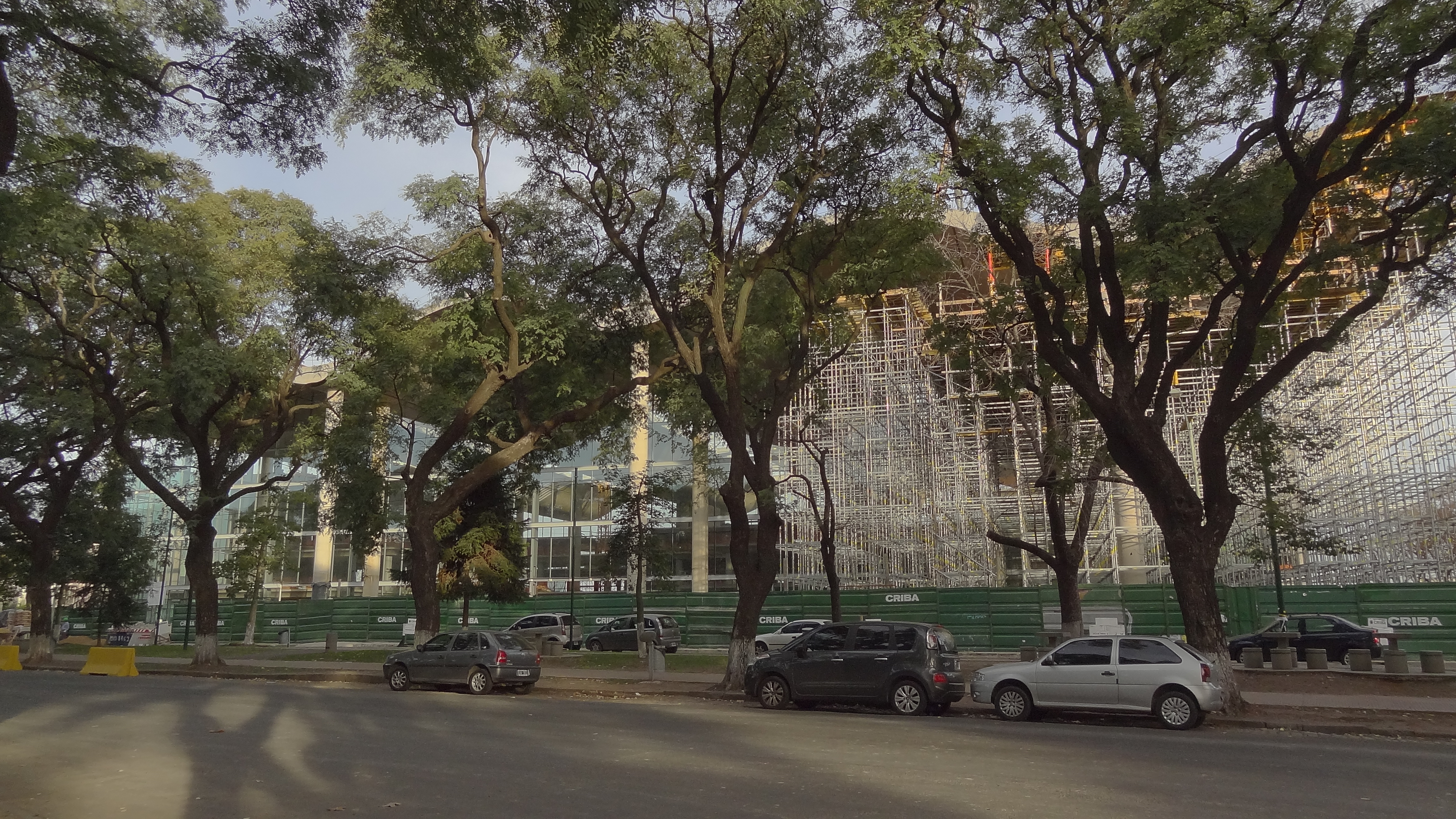 New offices for Banco Ciudad under construction.